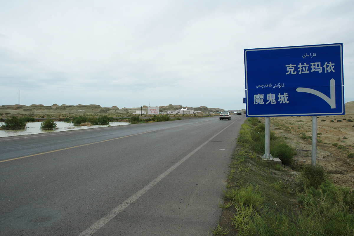 China National Highway G-217, "Ghost City" (魔鬼城) area near Karamay.